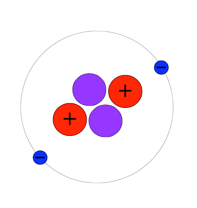 The atom of Helium-4